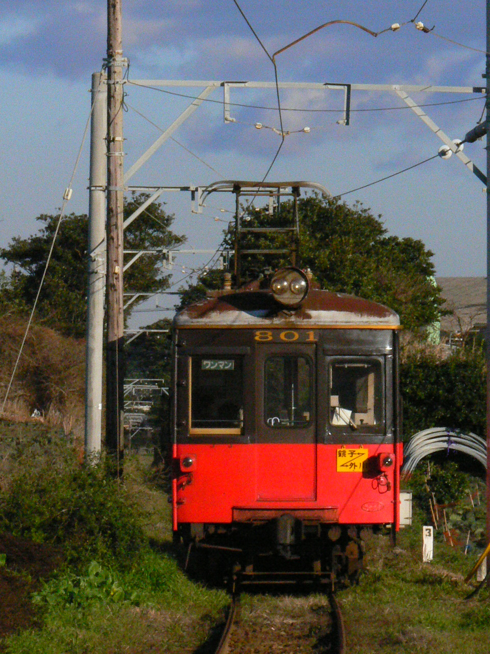 Choshi Electric Railway 800 series EMU car DeHa 801